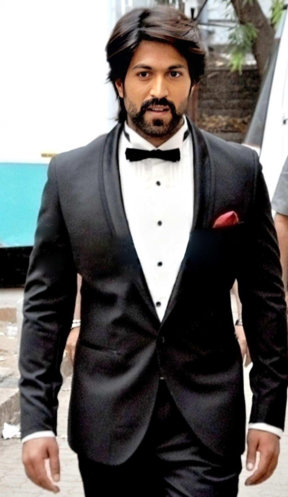 Kannada actor Yash at a photoshoot in Mumbai Cropped from the original